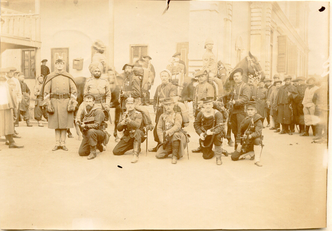 Eight nations alliance soldiers in 1900